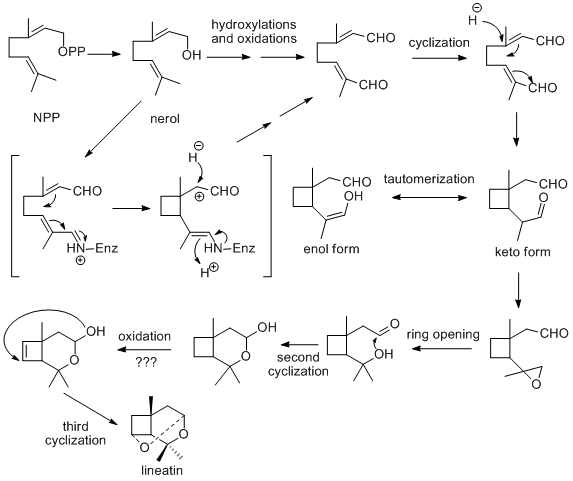 lineatin route revised